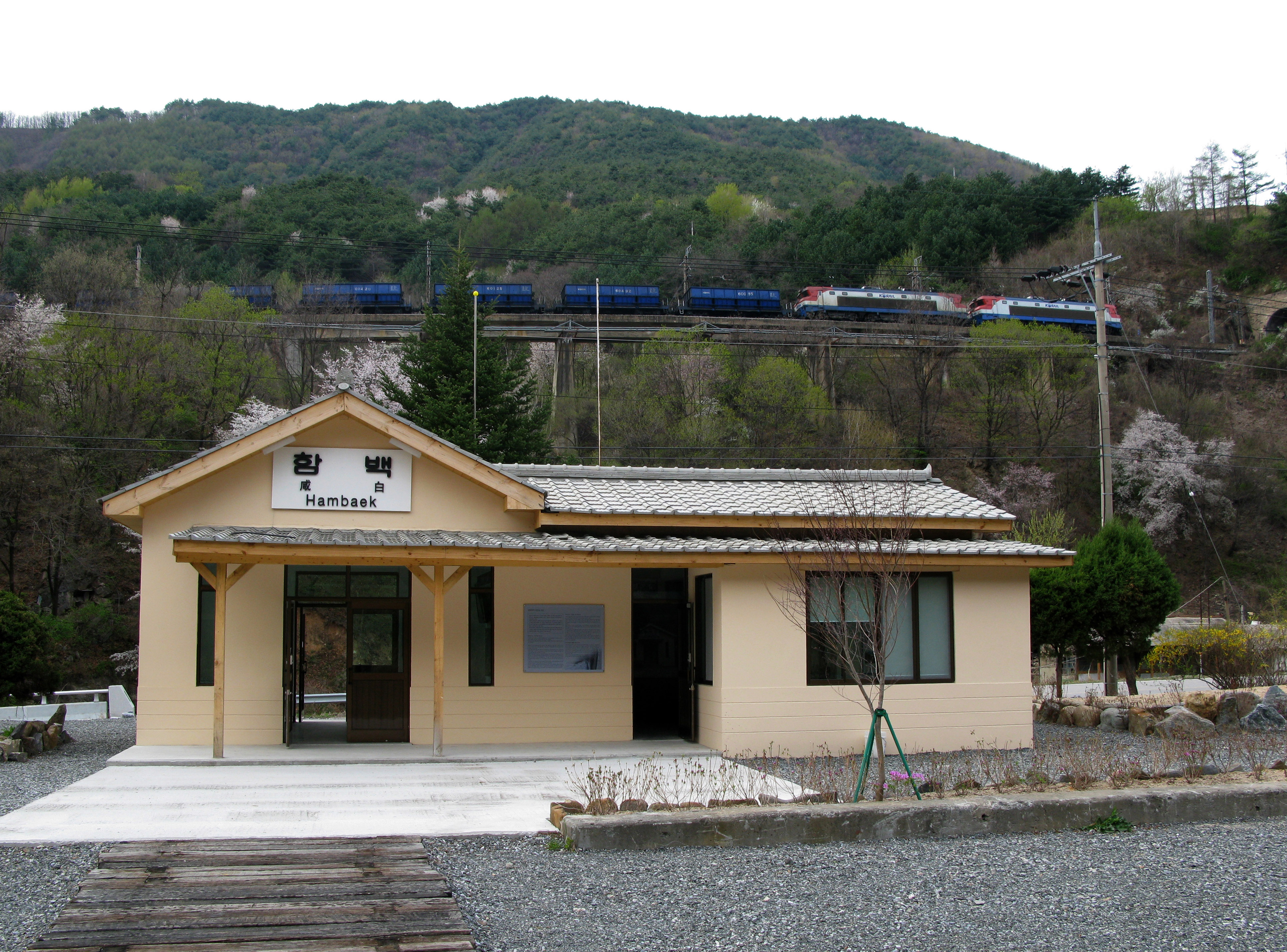 Hambaek Line Hambaek Station